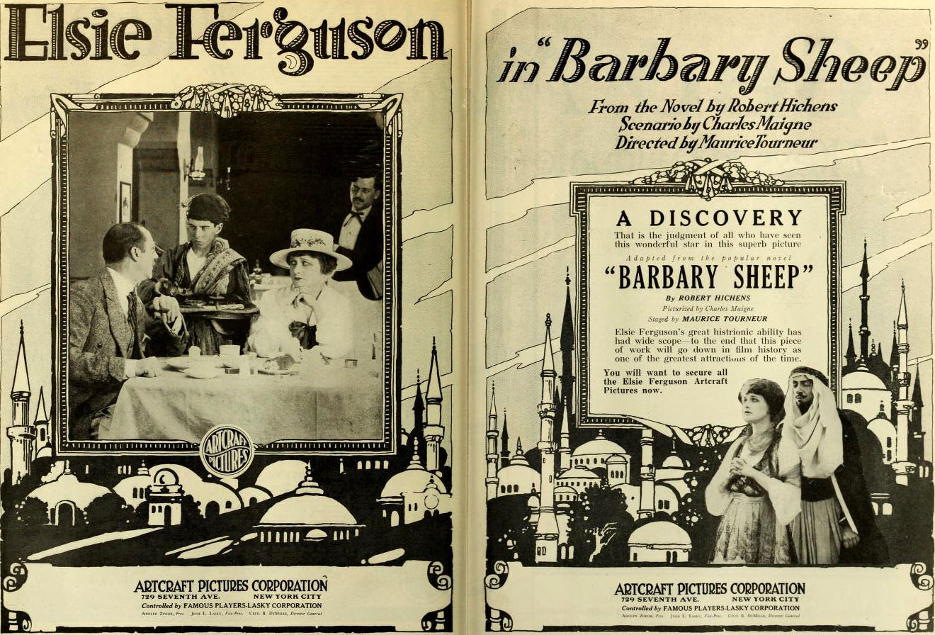 Advertisement in Moving Picture World for the film Barbary Sheep (1917).